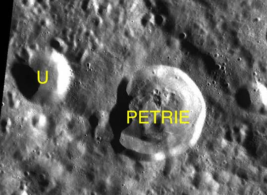 Part of the chart LAC-30 used for the presentation